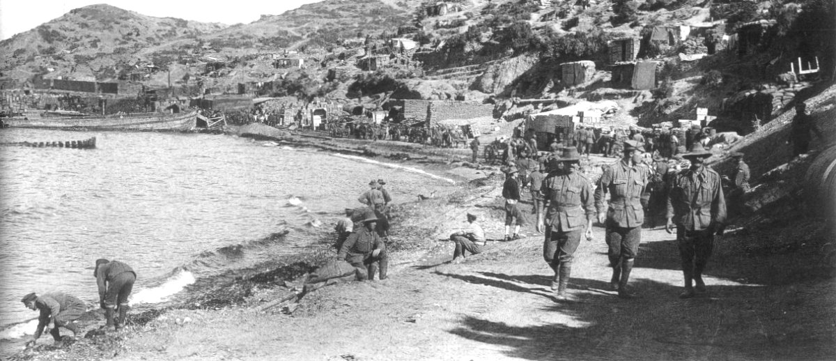 Anzac Cove after the landing in en:1915. Imperial War Museum catalogue number Q 13603. Downloaded from [1]